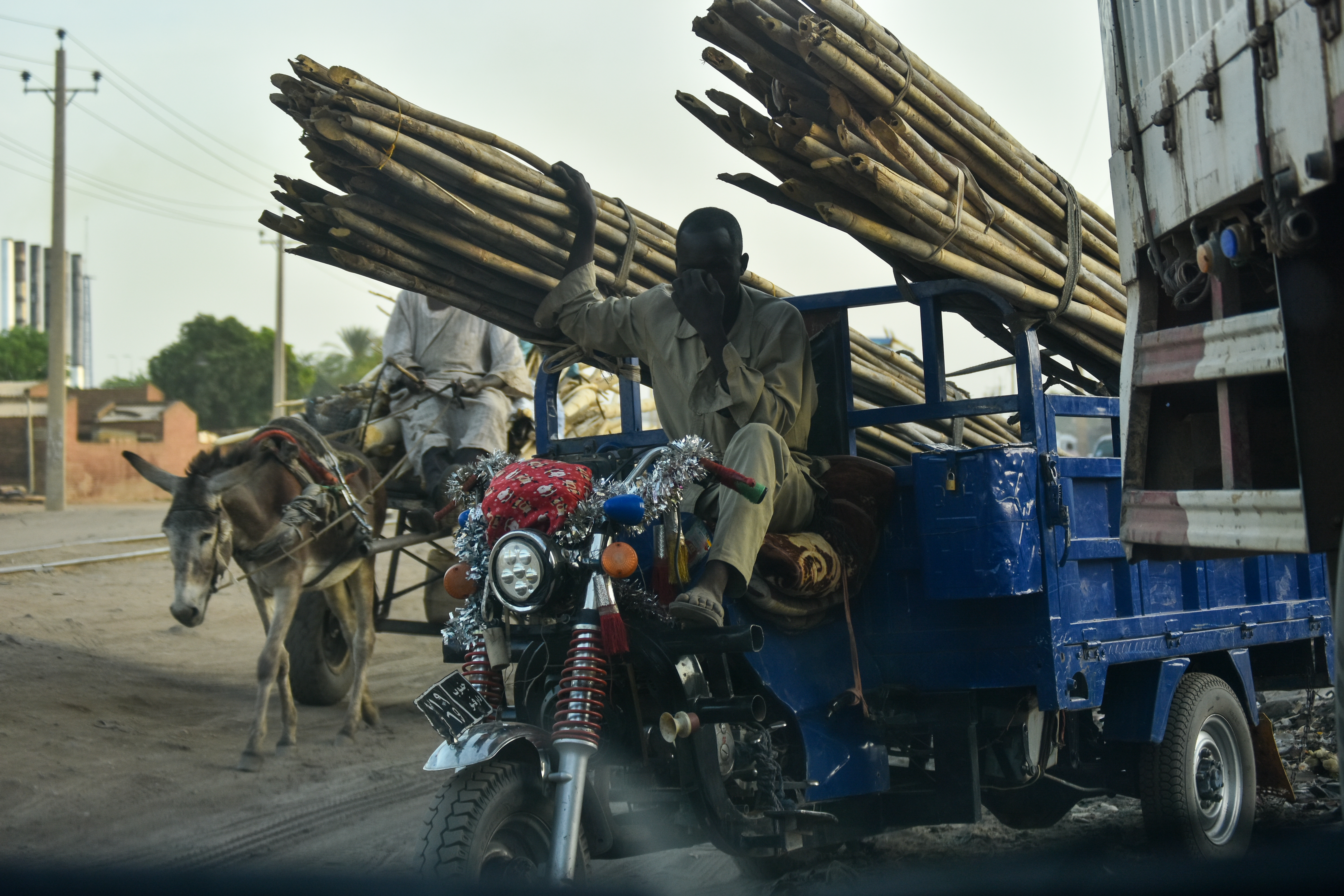 WLASudan2020 السودان ولاية جنوب دارفور . نيالا. السكة حديد This is an image with the theme "Africa on the Move or Transport" from: Sudan